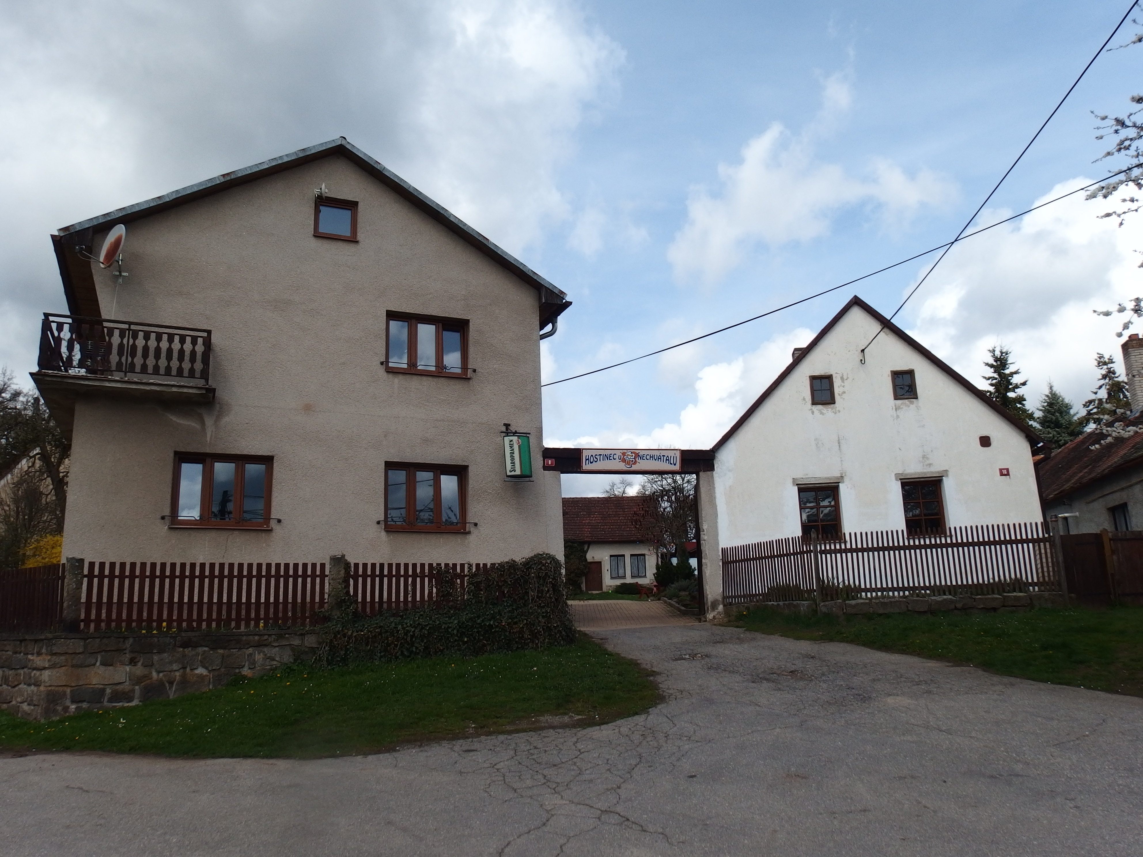 Vanůvek, Jihlava District, Czech Republic.